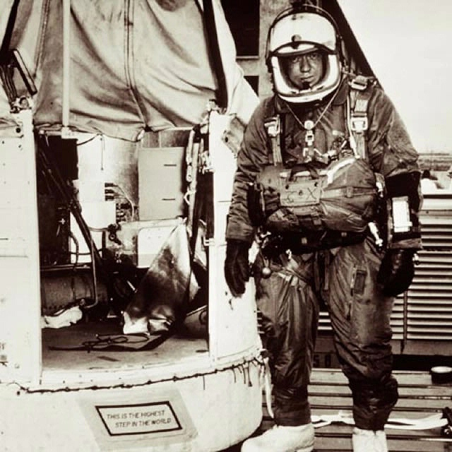 Joseph Kittinger next to the Excelsior gondola on June 2, 1957